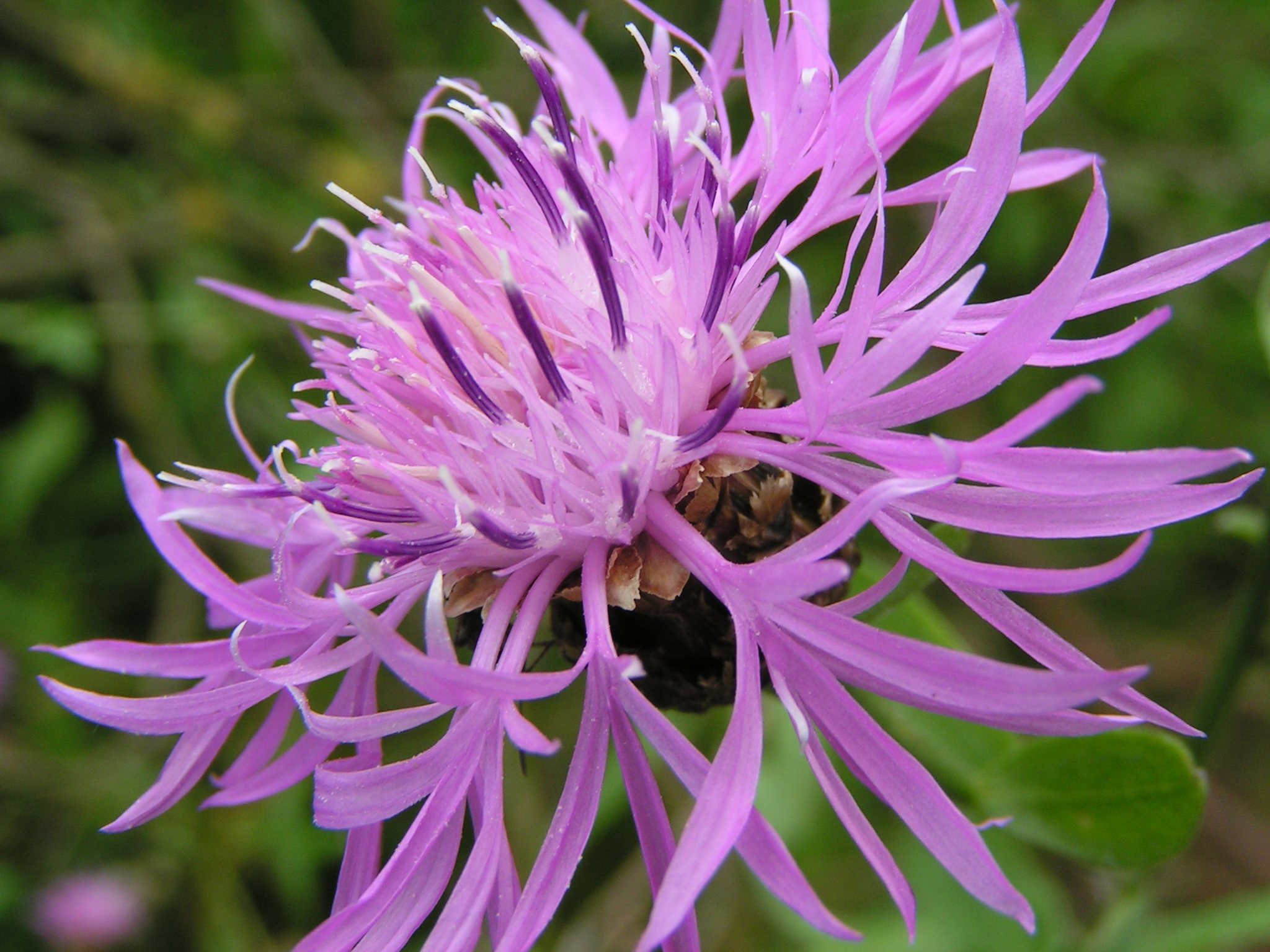 Centaurea jacea at Jelgava district, Latvia.